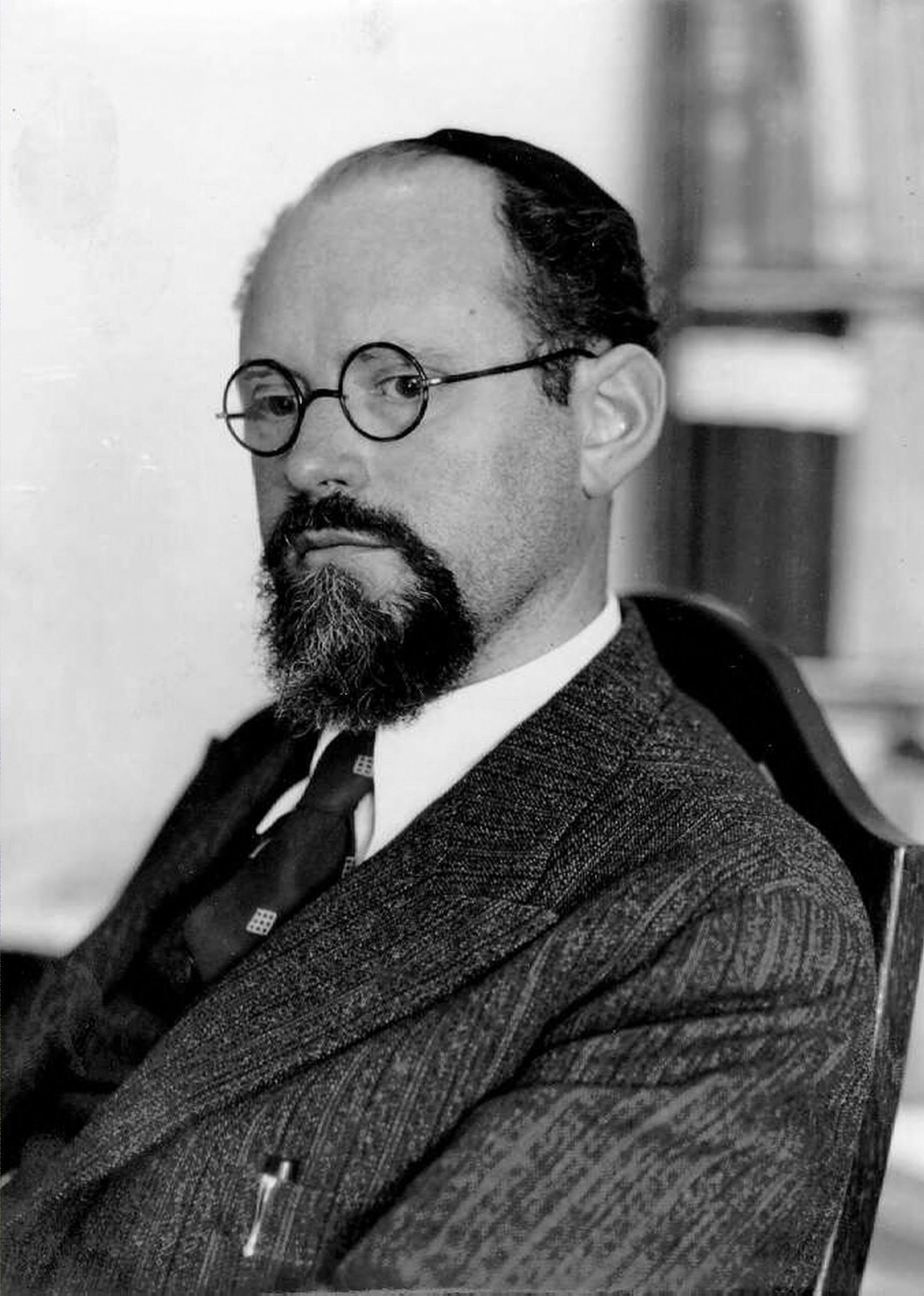 Abraham Halevi (Adolf) Fraenkel, German-born Israeli mathematician, first Dean of Mathematics as the Hebrew University of Jerusalem and Rector of the University; 1956, recipient of the Israel Prize for exact sciences (1956); member of the Israel Academy of Sciences and Humanities; Zionist, member of the Jewish National Council and the Jewish Assembly of Representatives under the British mandate, belonged to the "Mizrachi"